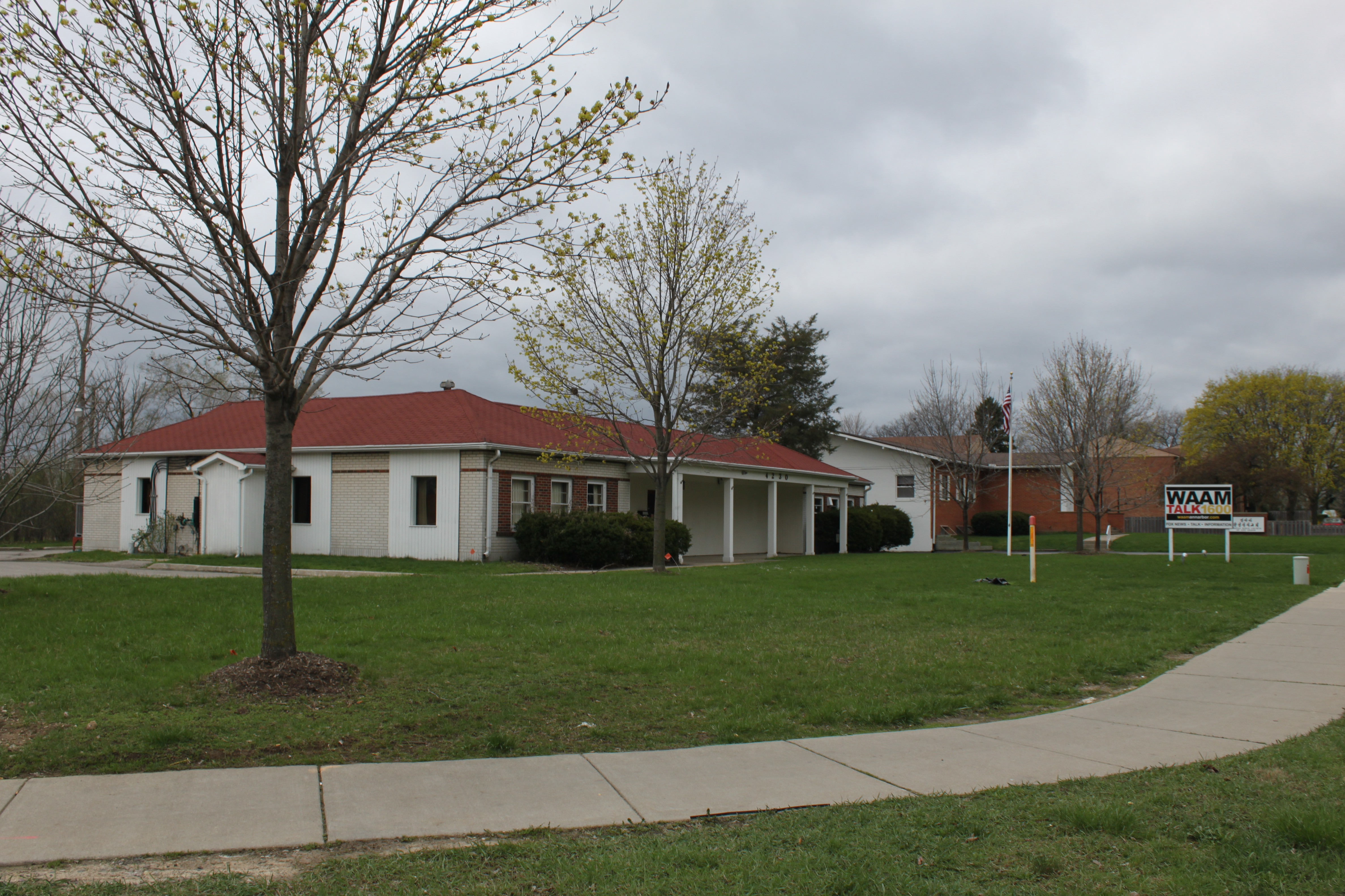 WAAM Studio and offices